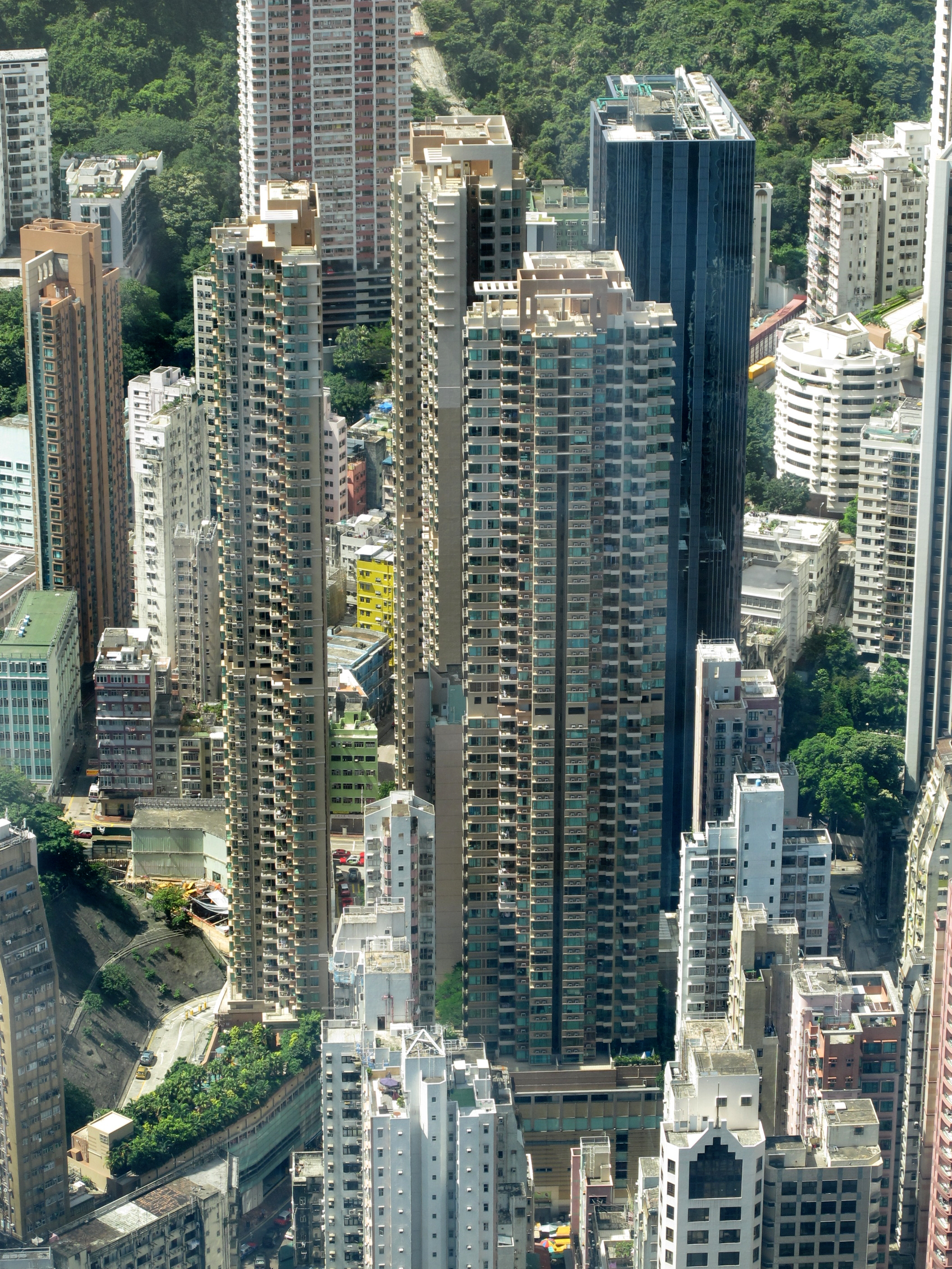 The Zenith